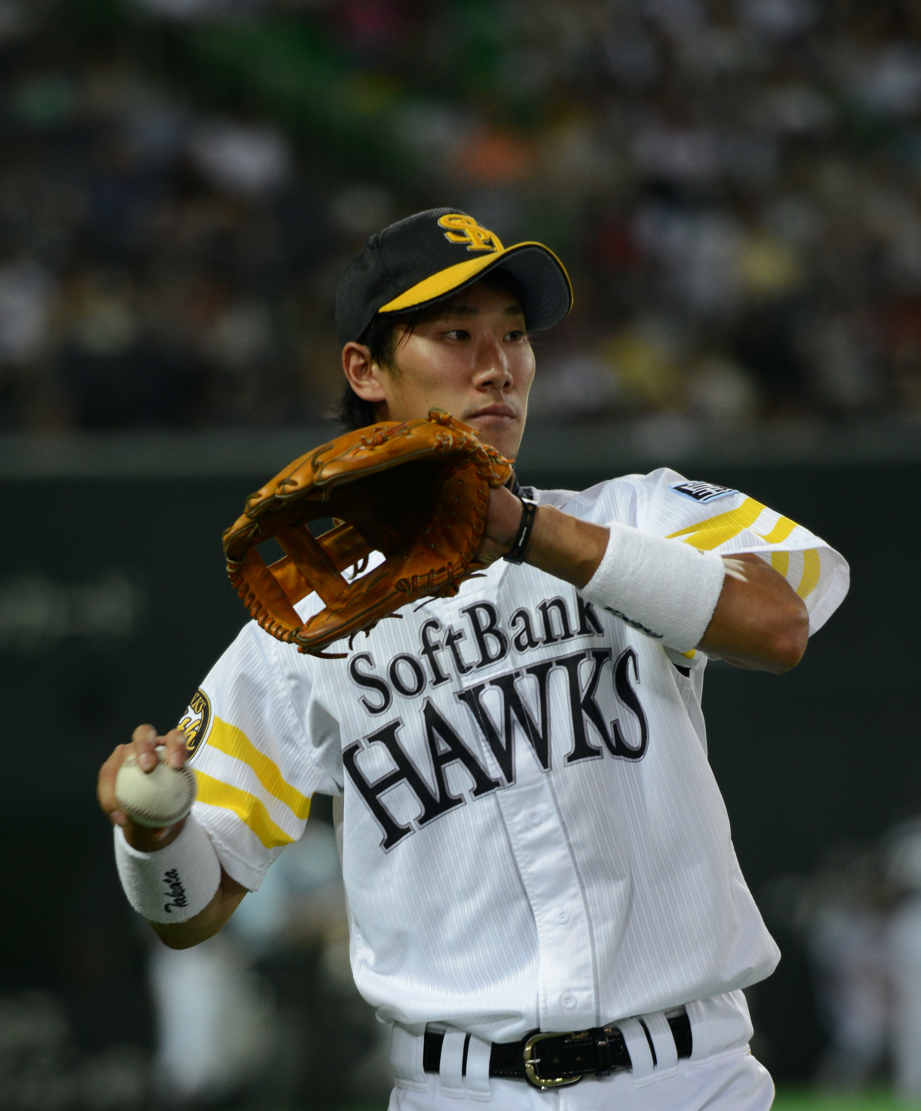 Tomoki Takata, infielder of the Fukuoka SoftBank Hawks, at Fukuoka Dome.